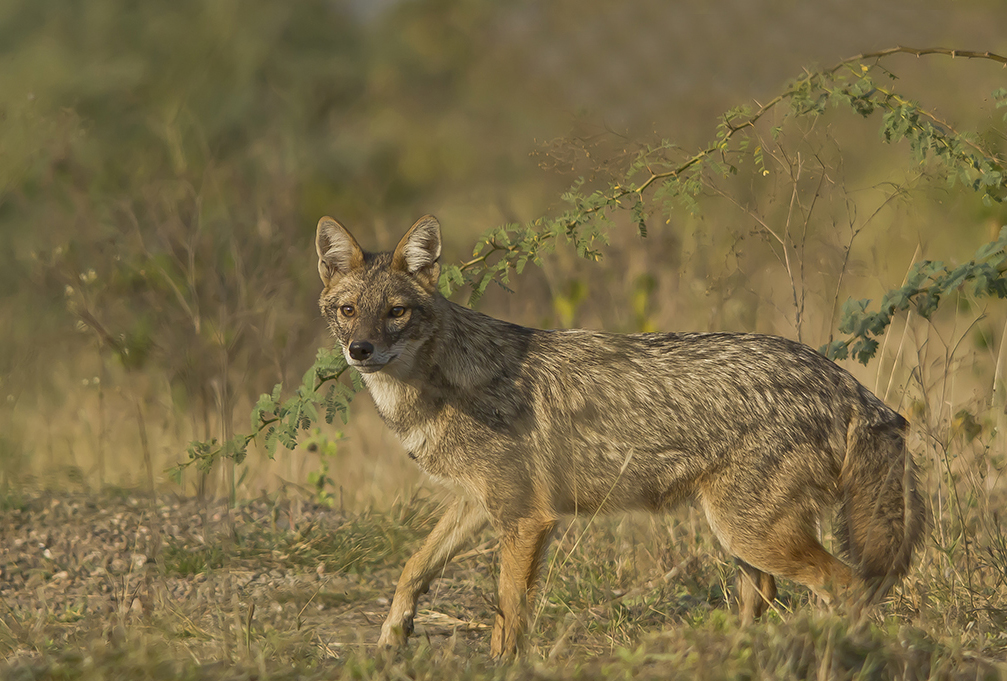 Adult